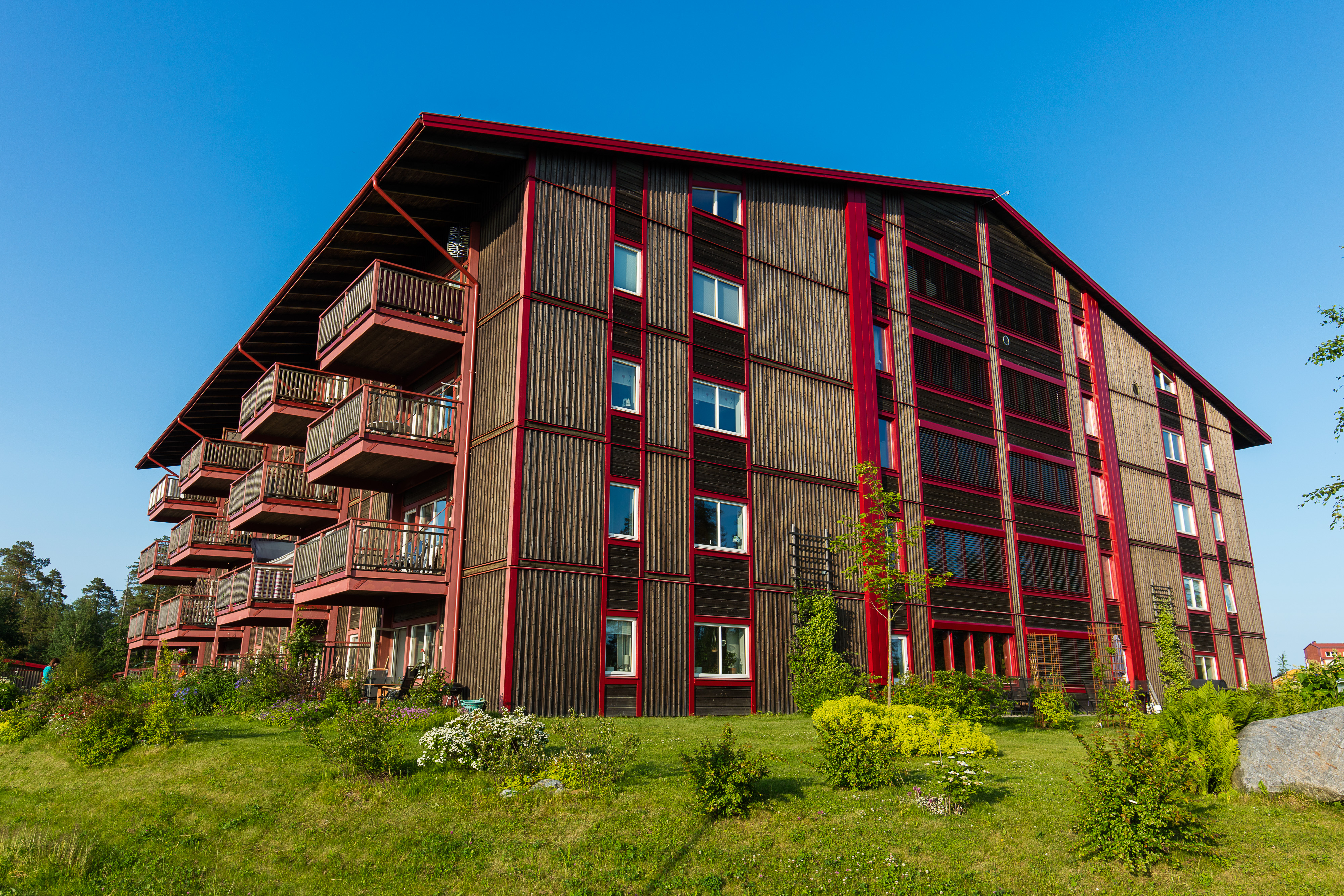 Environmentally savvy building at Sjöfruvägen, Tomtebo in Umeå.